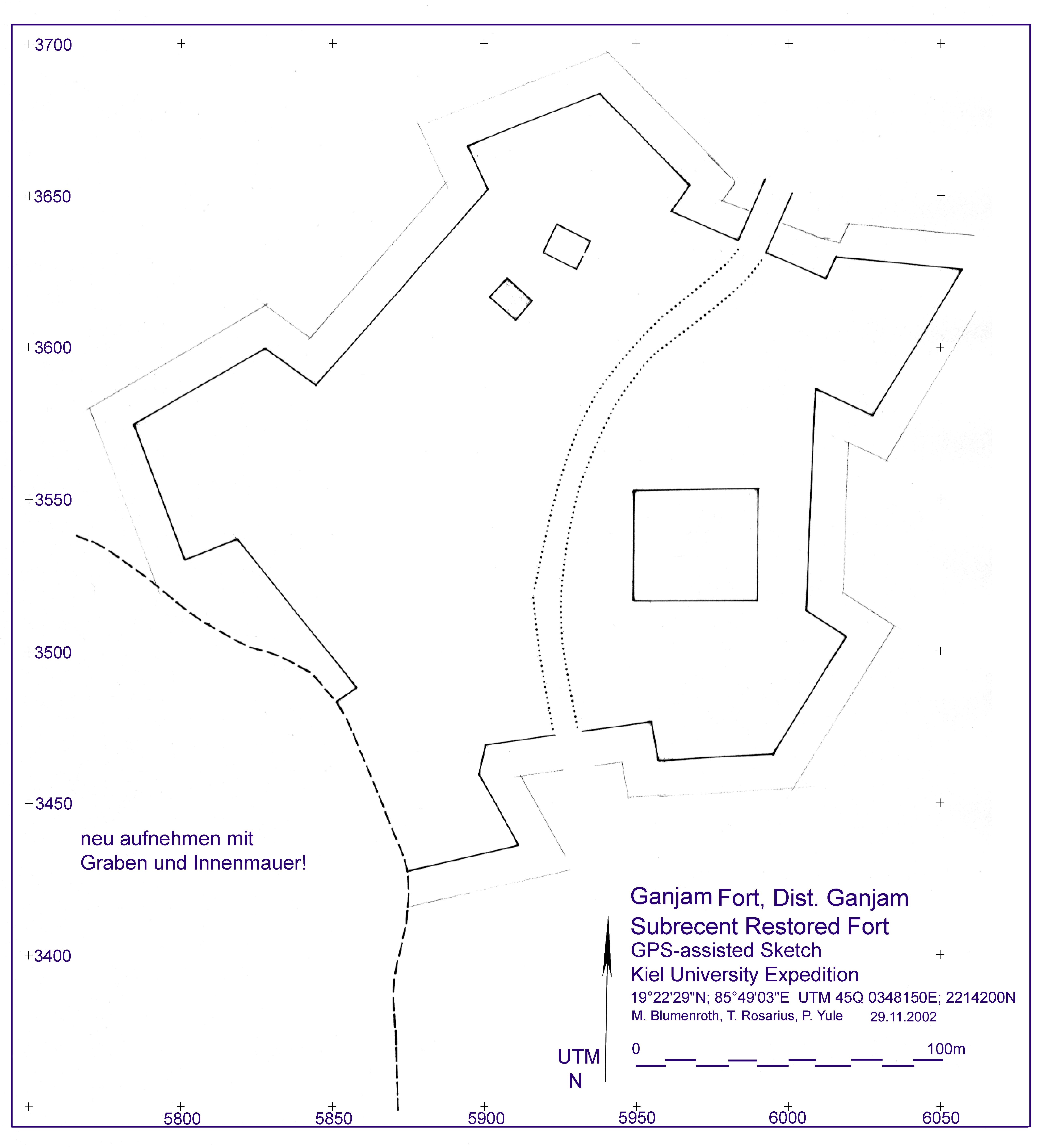 Ganjam